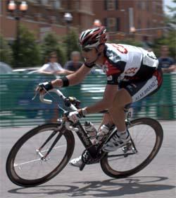 Bobby Julich in a breakaway during his best year of his career 2005. This photo taken at the CSC Invitational on May 29th, 2005, Arlington, VA. Bobby was in a break away most of the day and took 4th that day. CSC Invitational